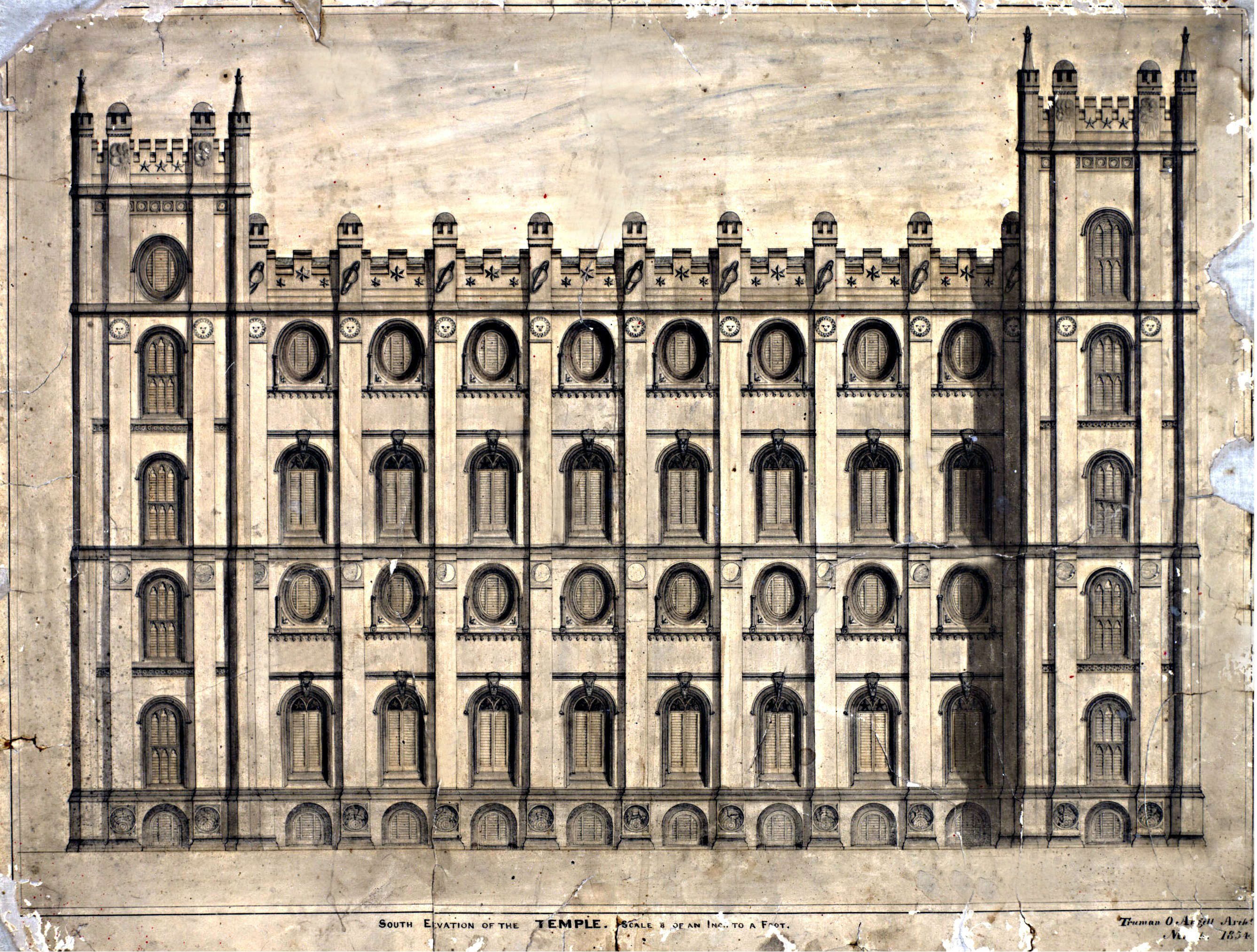 Original elevation plan for the Salt Lake LDS temple showing the saturn stones, earth stone carvings, sun faces, and square and compass window accents. These elements were later discarded.